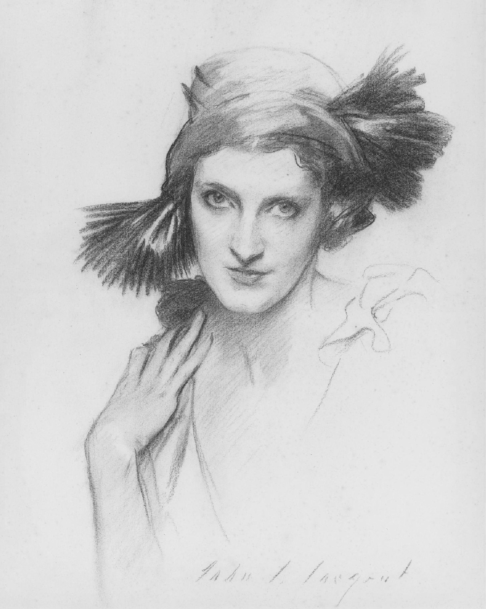 Mrs Reginald (Daisy) Fellowes charcoal on paper 61 x 45.7 cm signed l.r.: John S. Sargent